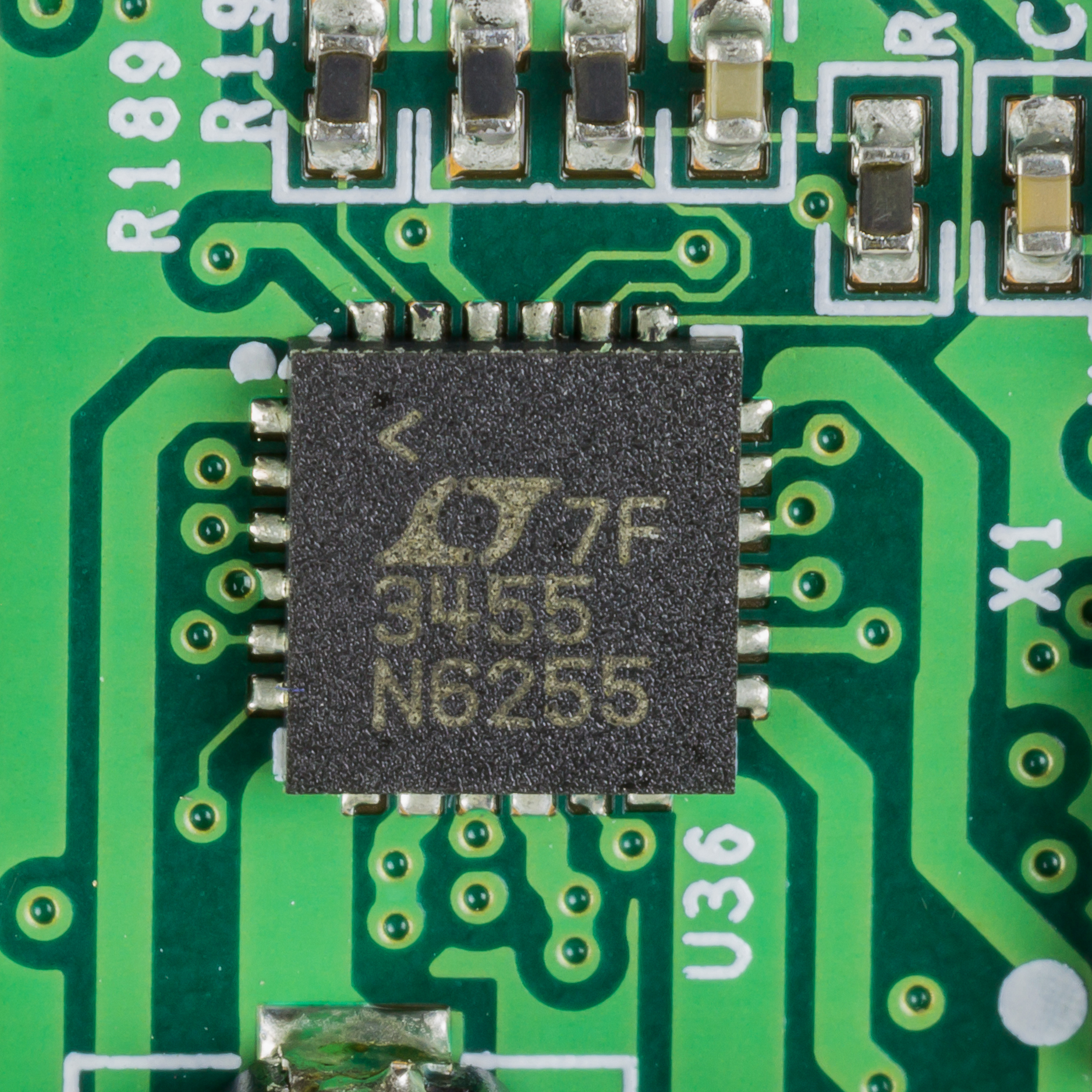 TomTom One (4N00.0121) - Linear Technology LTC3455 - Dual DC/DC Converter with USB Power Manager and Li-Ion Battery Charger. 24-Pin QFN Package